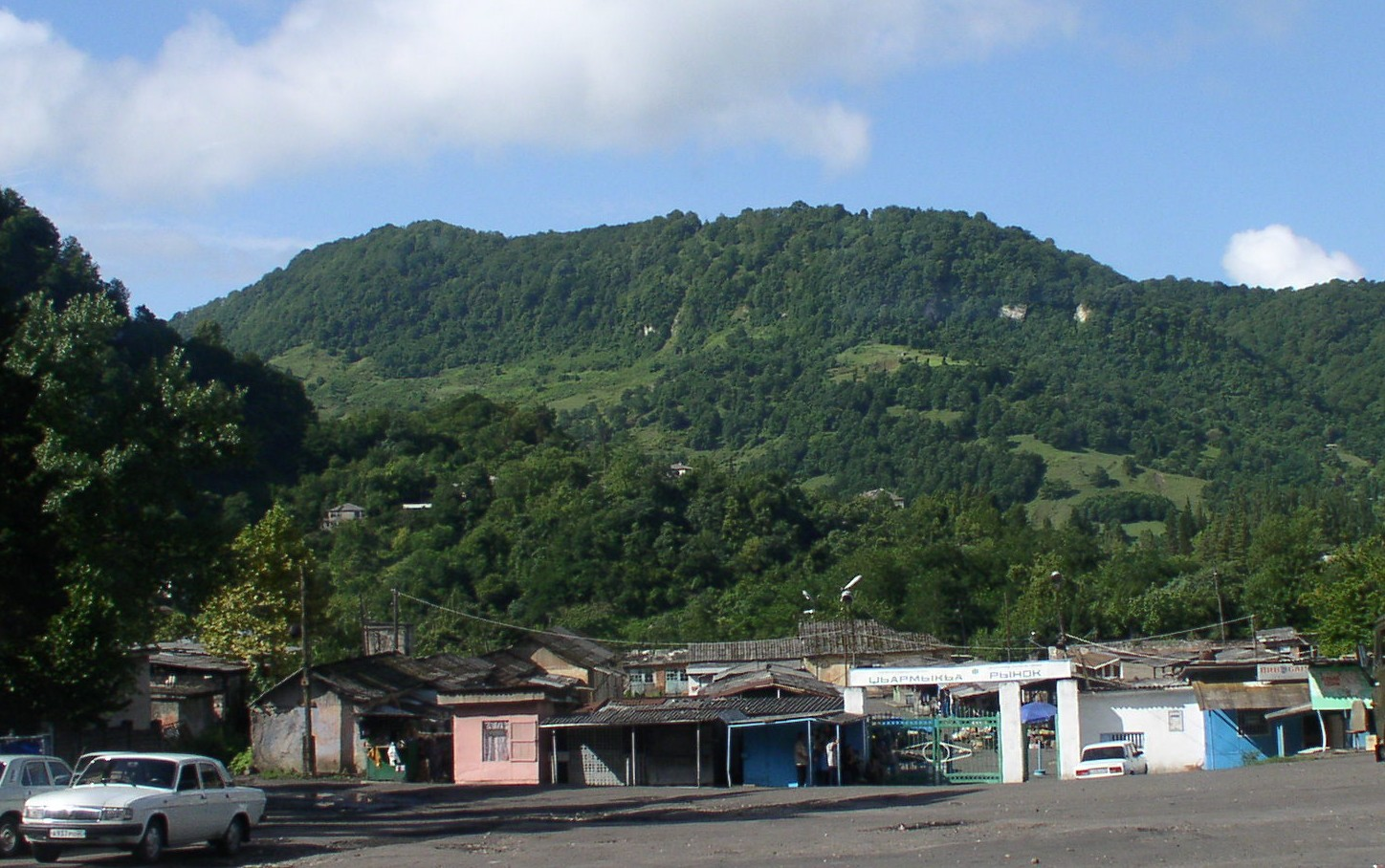 View of the holy mountain of Lashkendar from Tquarchal (Tkvarcheli) market square